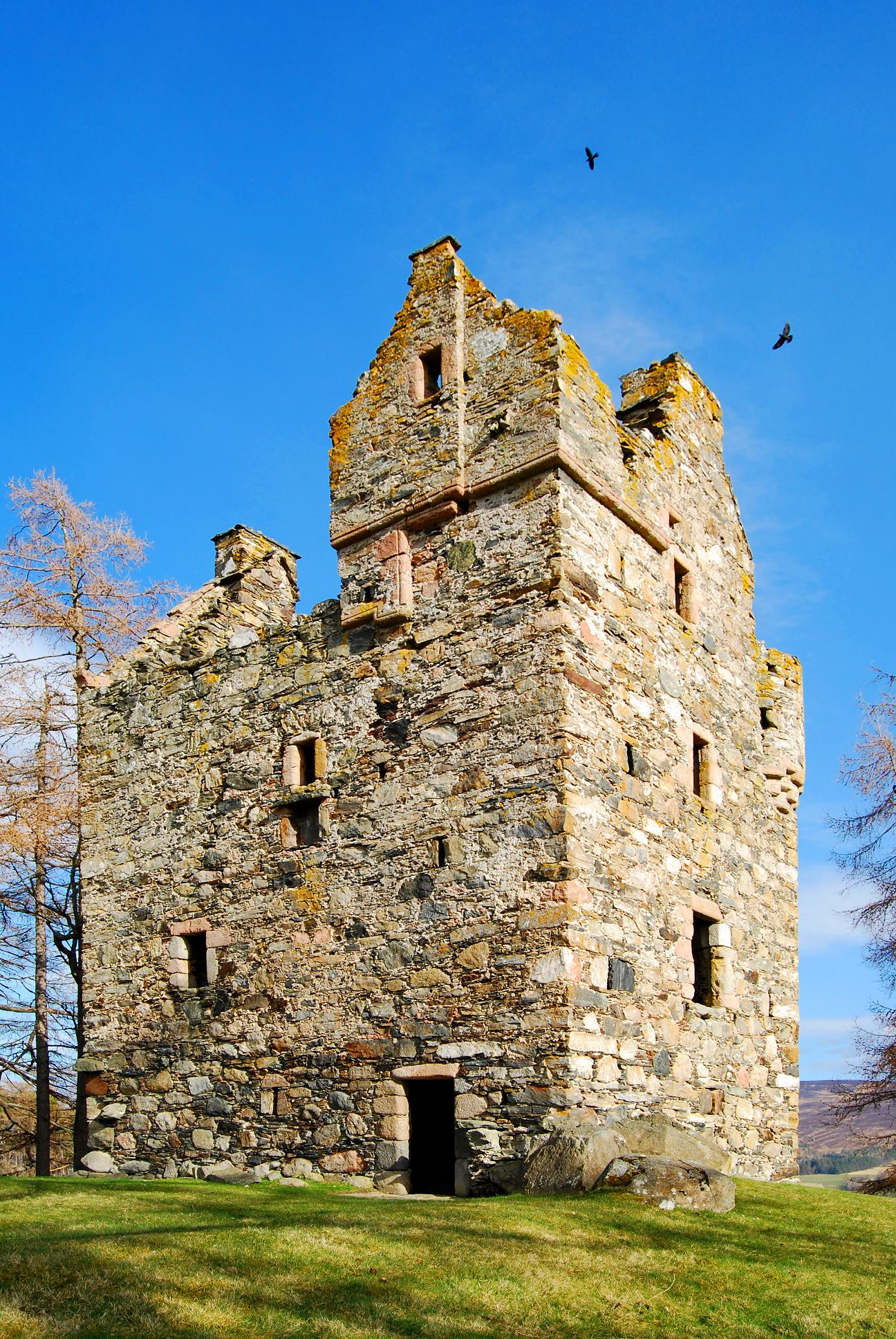 northeast wiew.